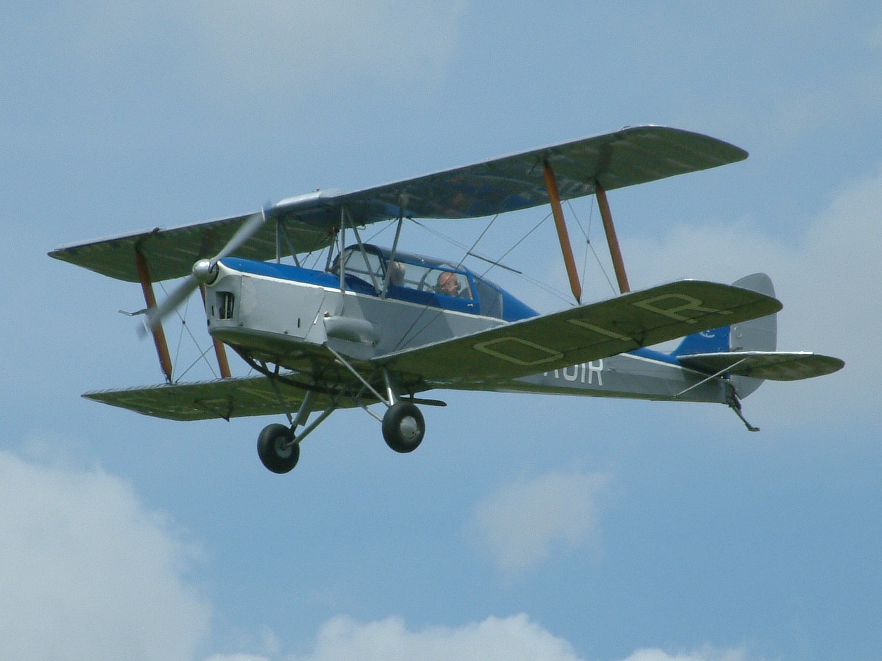 Thruxton Jackaroo G-AOIR photographed in 2003 at Shoreham Airport, England